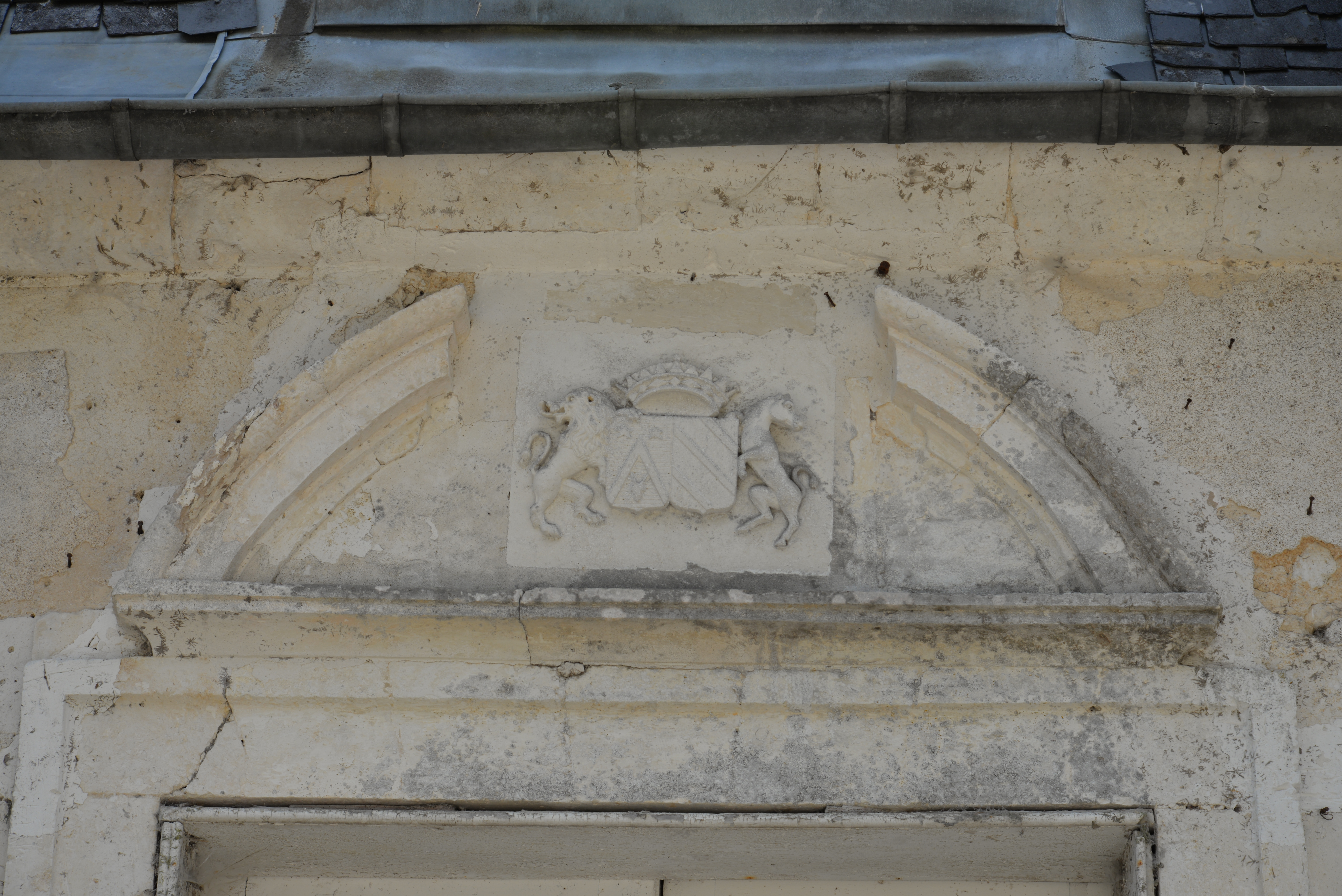 north